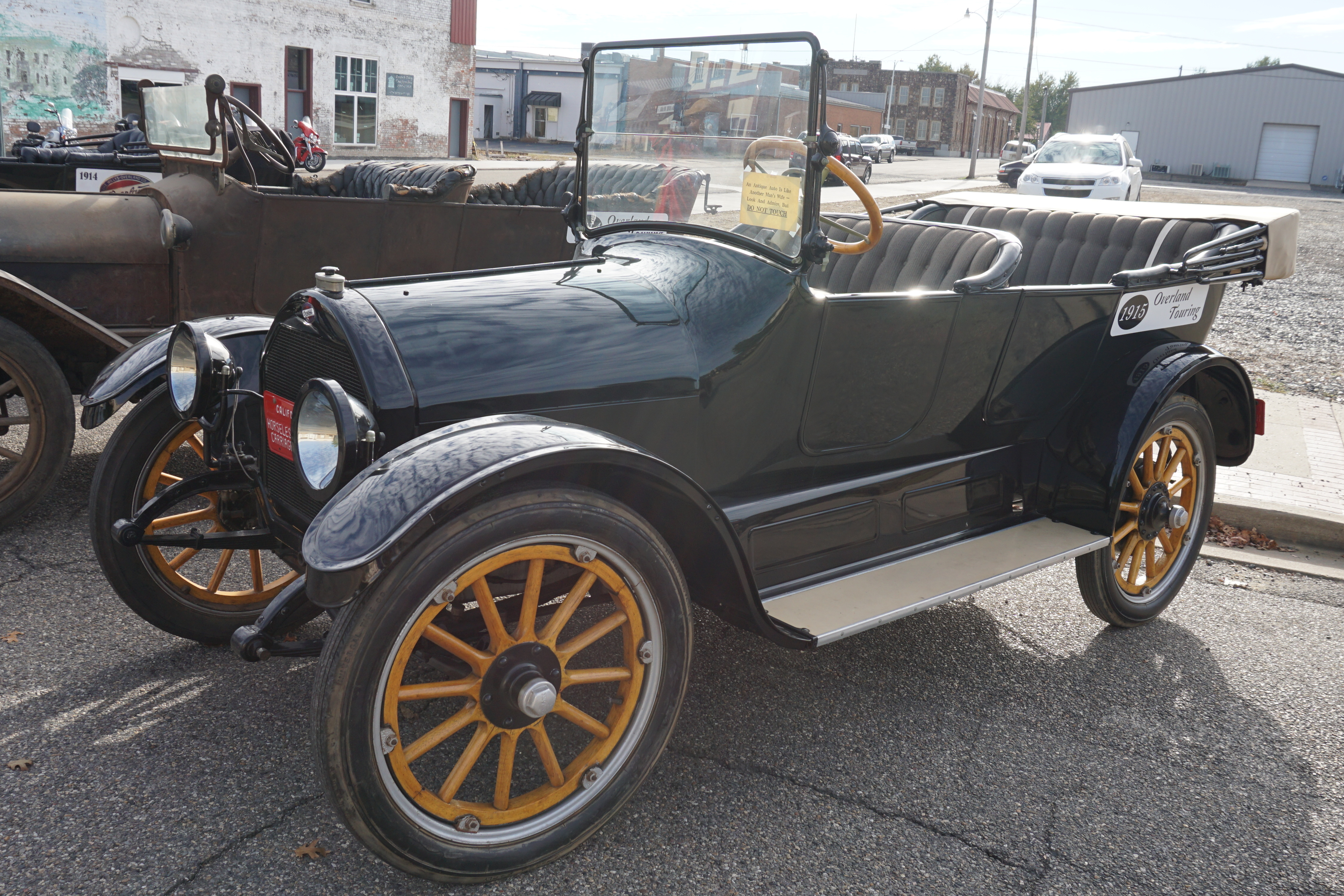 A 1915 Overland Touring at the Ouachita Arts Celebration in Mena, Arkansas (United States).